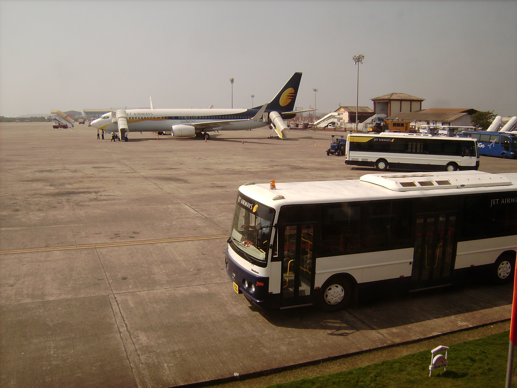 Dabolim airport in Goa, India